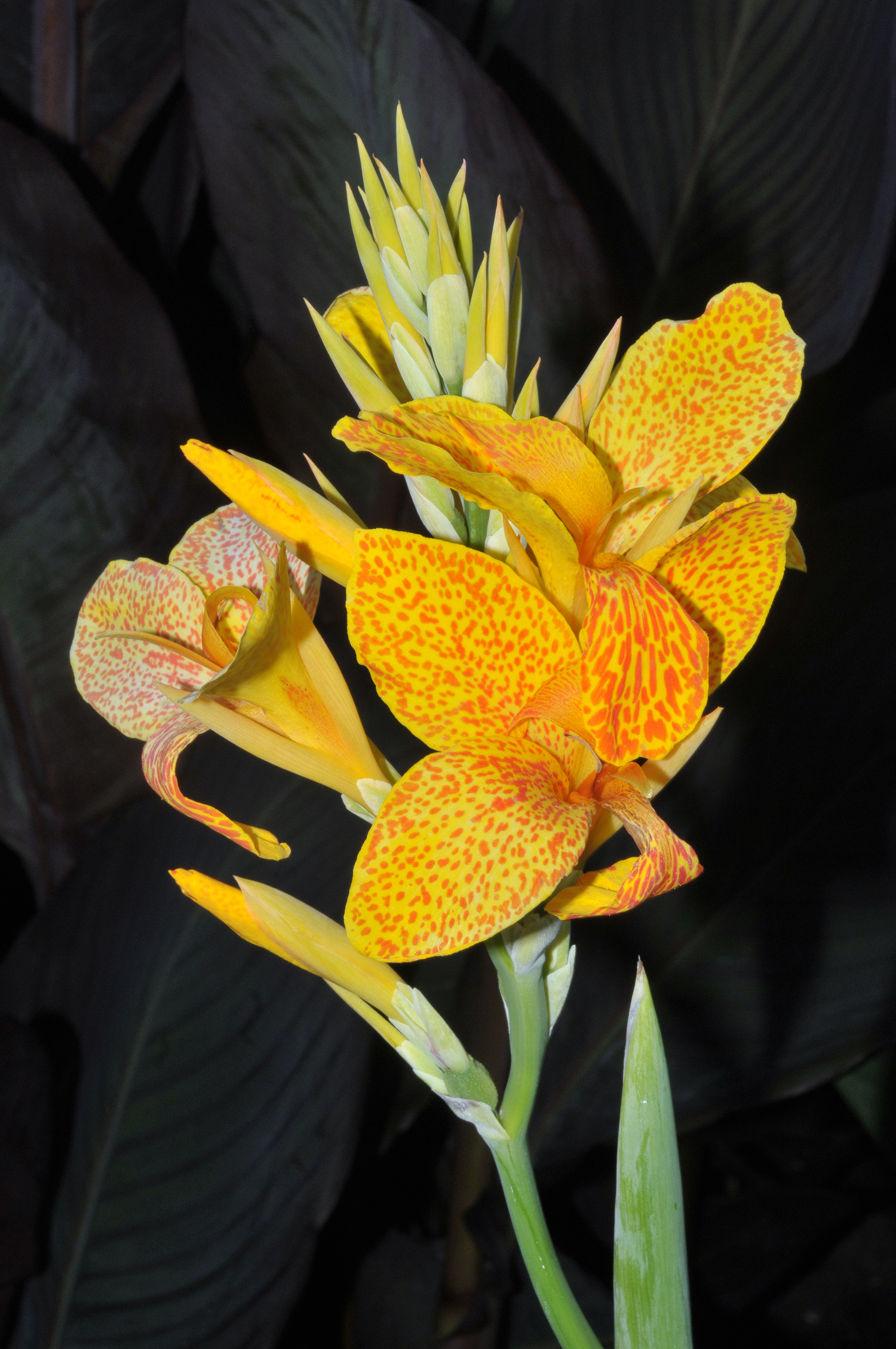 Canna Golden Gate in the botanical garden Berggarten in Herrenhausen near Hanover, Germany.